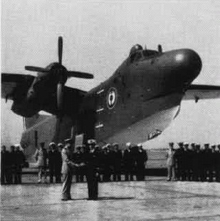 Low quality picture of a French Martin P5M-2 Marlin during a ceremony in 1957, marking the end of training of the French crews at the U.S. Navy's patrol squadron VP-44.